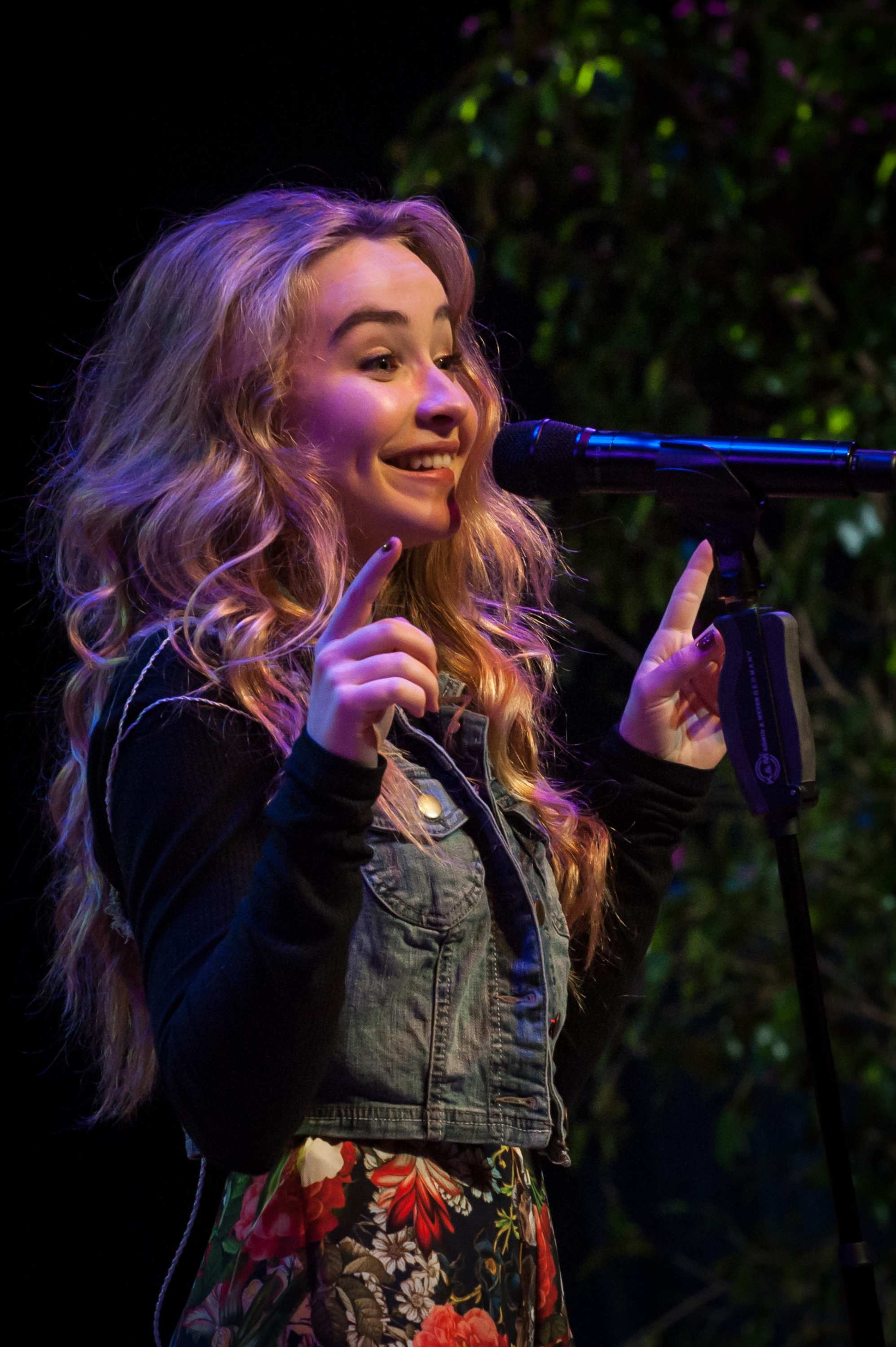 Sabrina Carpenter - Disney Social Media Moms Conference - Disney Junior Morning